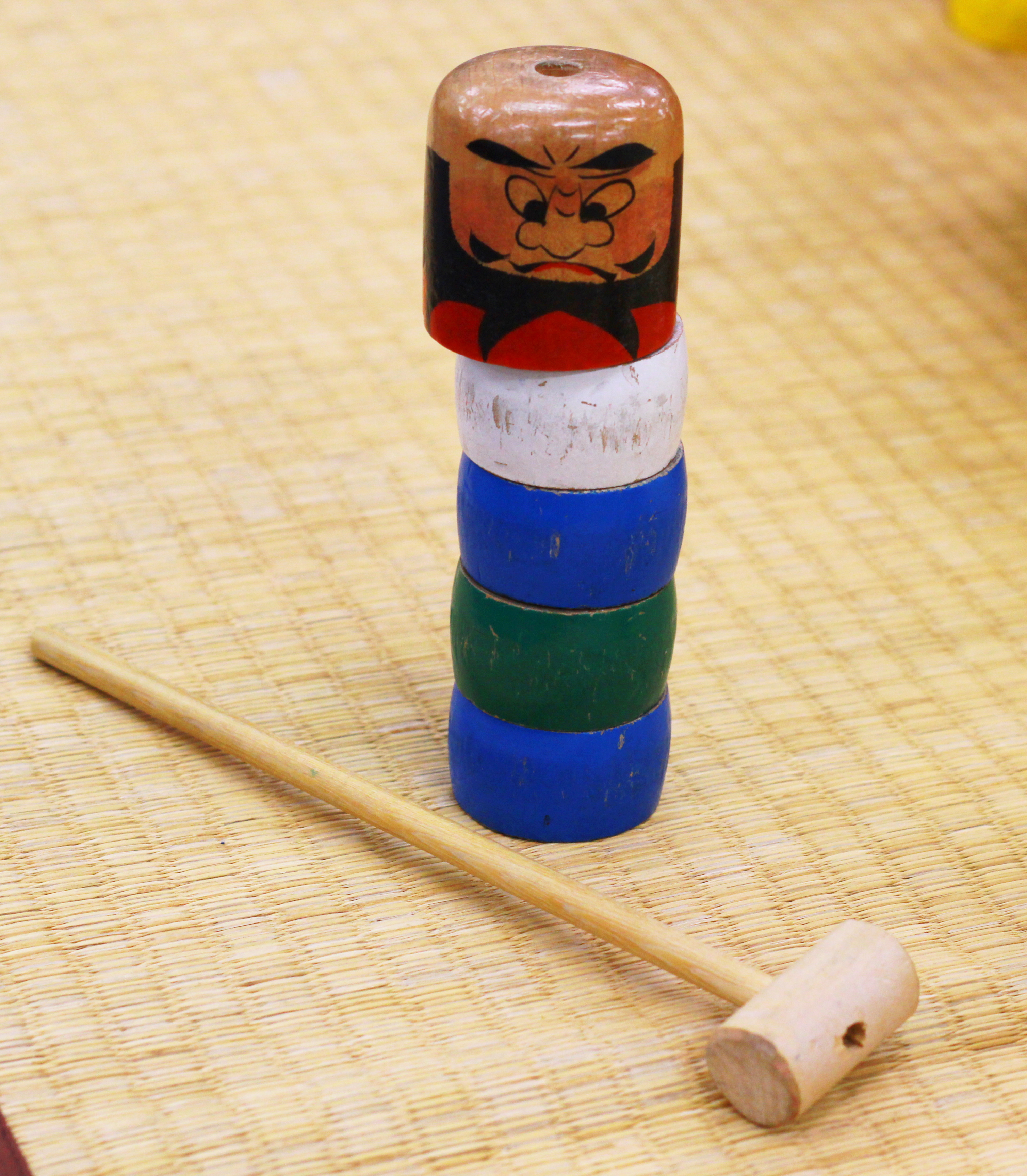 Daruma otoshi, a Japanese toy/game.